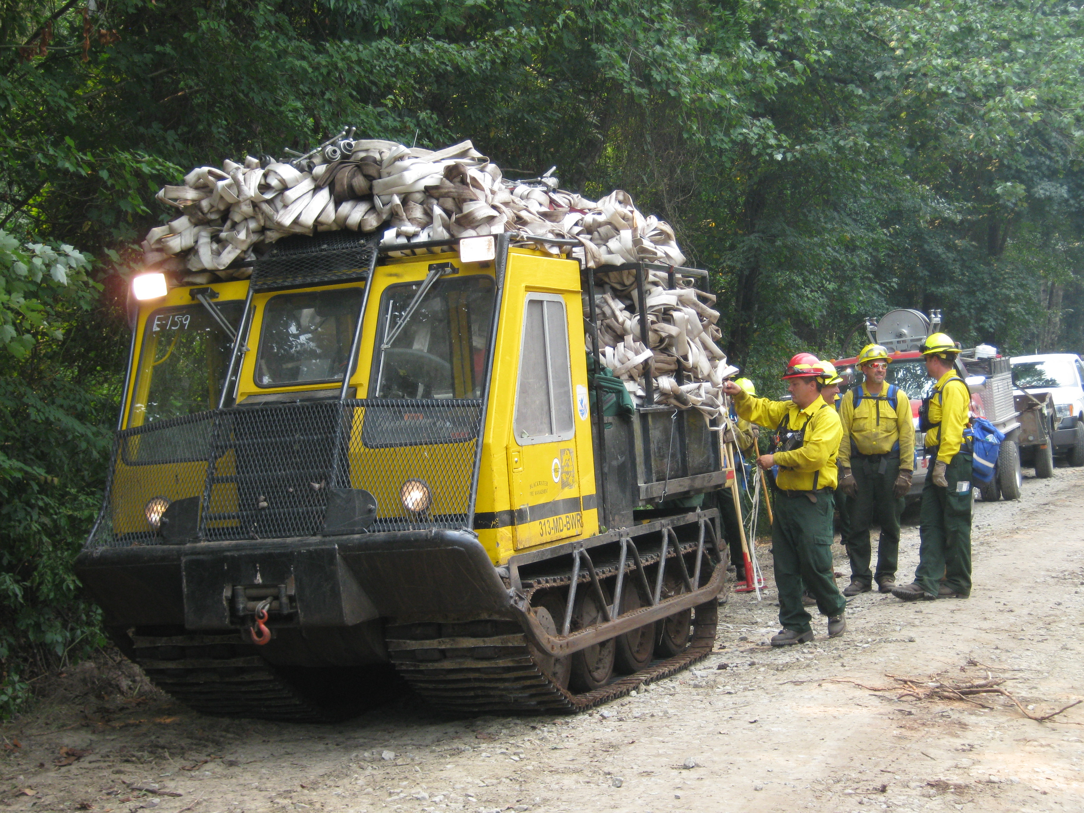 Suffolk, VA, August 2011. A Bombardier, a tracked vehicle with low-ground pressure that can float, is loaded with hose for transport to the fire line at the Lateral West Fire burning on Great Dismal Swamp National Wildlife Refuge. The Bombarideri has a 300-gallon water tank. Credit: Brad Lidell/USFWS.